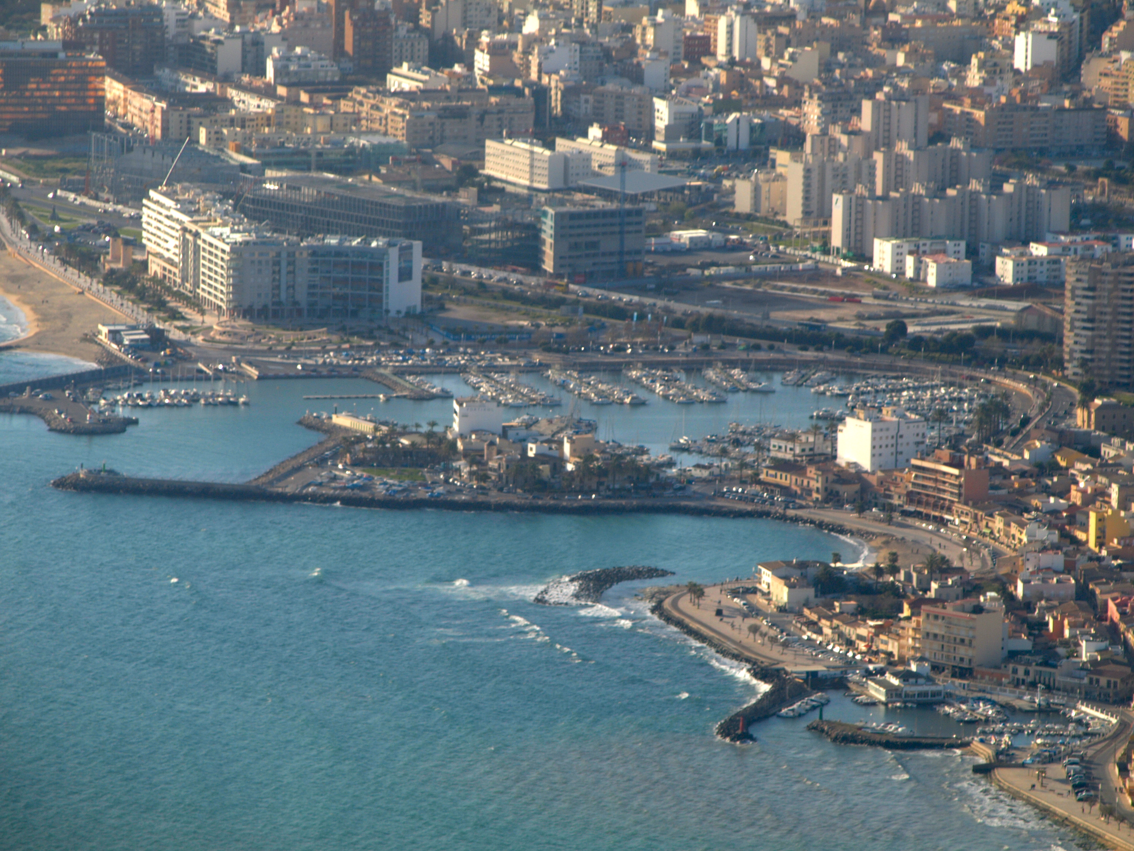 Es Portitxol aerial view.